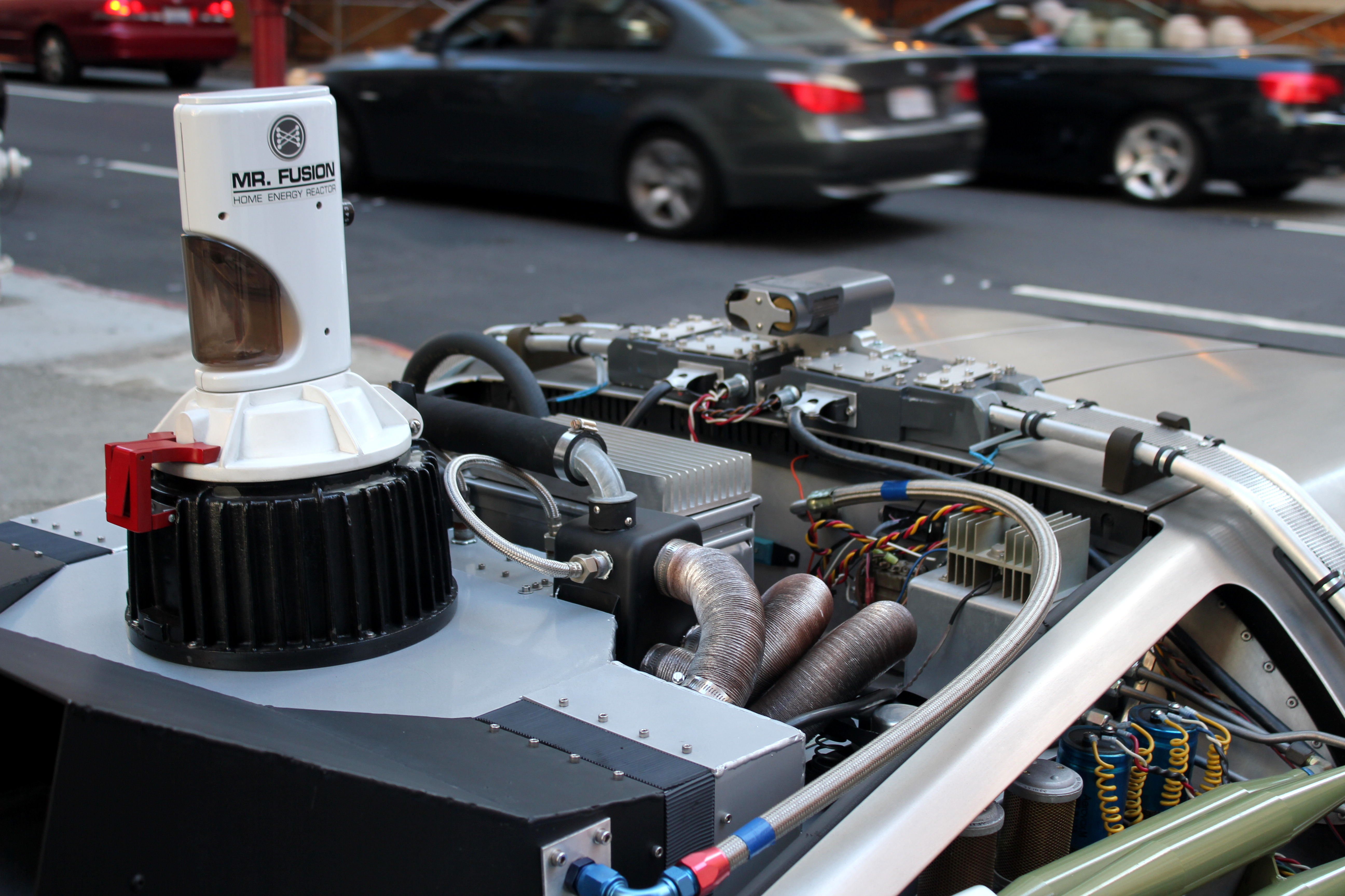 Replica DeLorean DMC-12 Time Machine's Mr. Fusion Home Energy Reactor